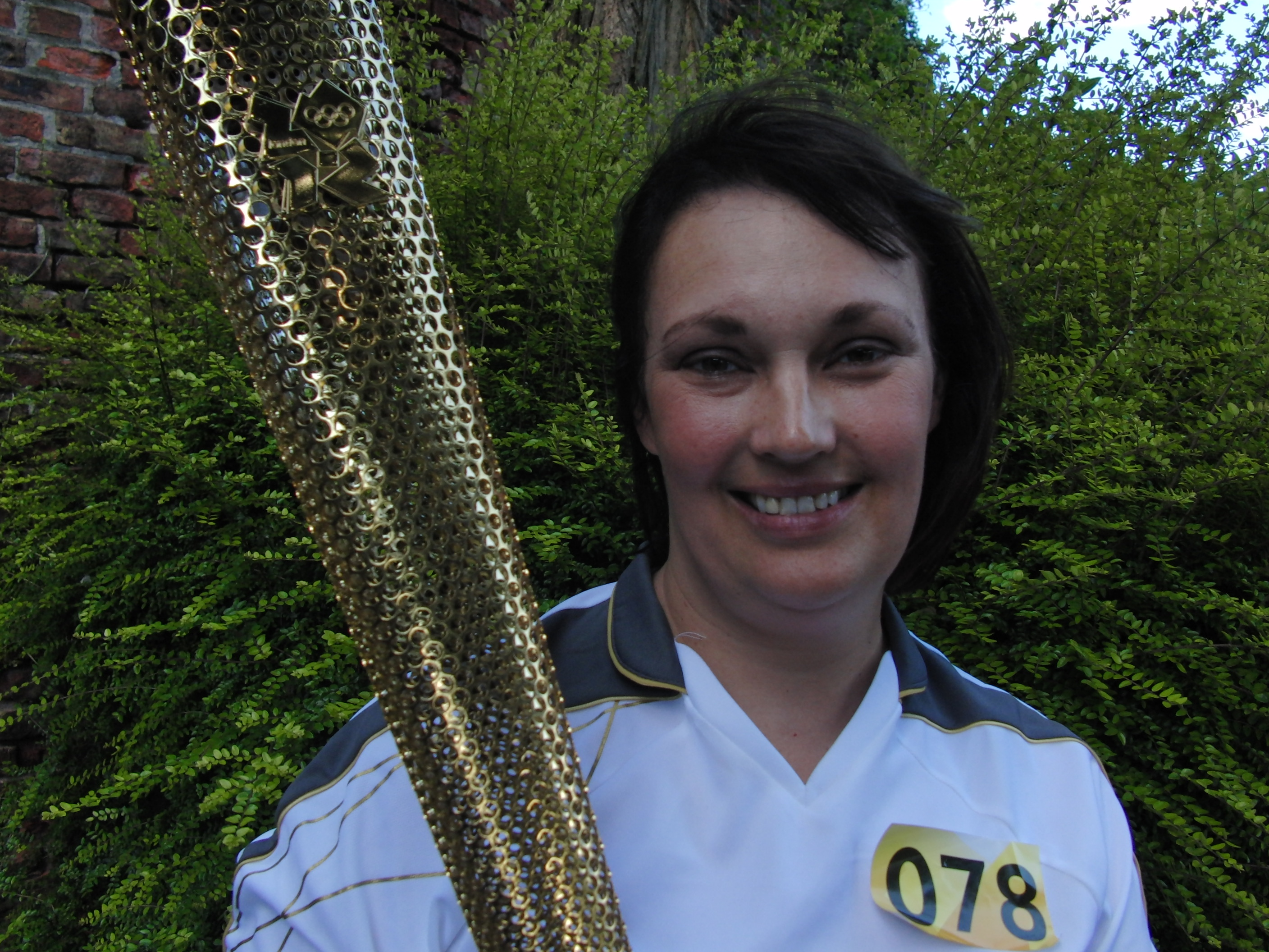 Photo of Helen Mackenzie, Olympic Torchbearer. Helen was awarded the torch partly for her work in the sport